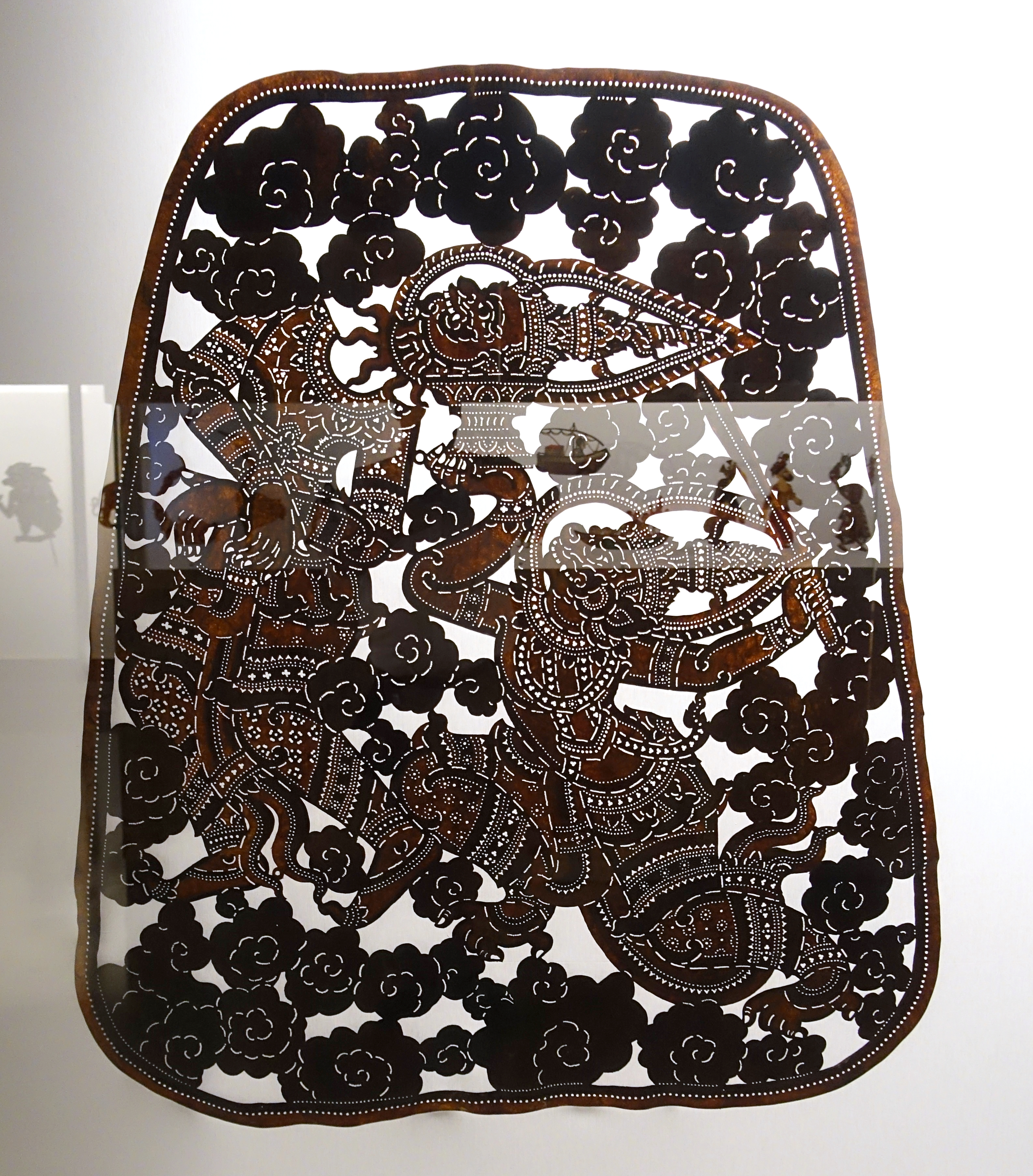 Exhibit in the Museu do Oriente - Lisbon, Portugal. This work is old enough so that it is in the public domain.